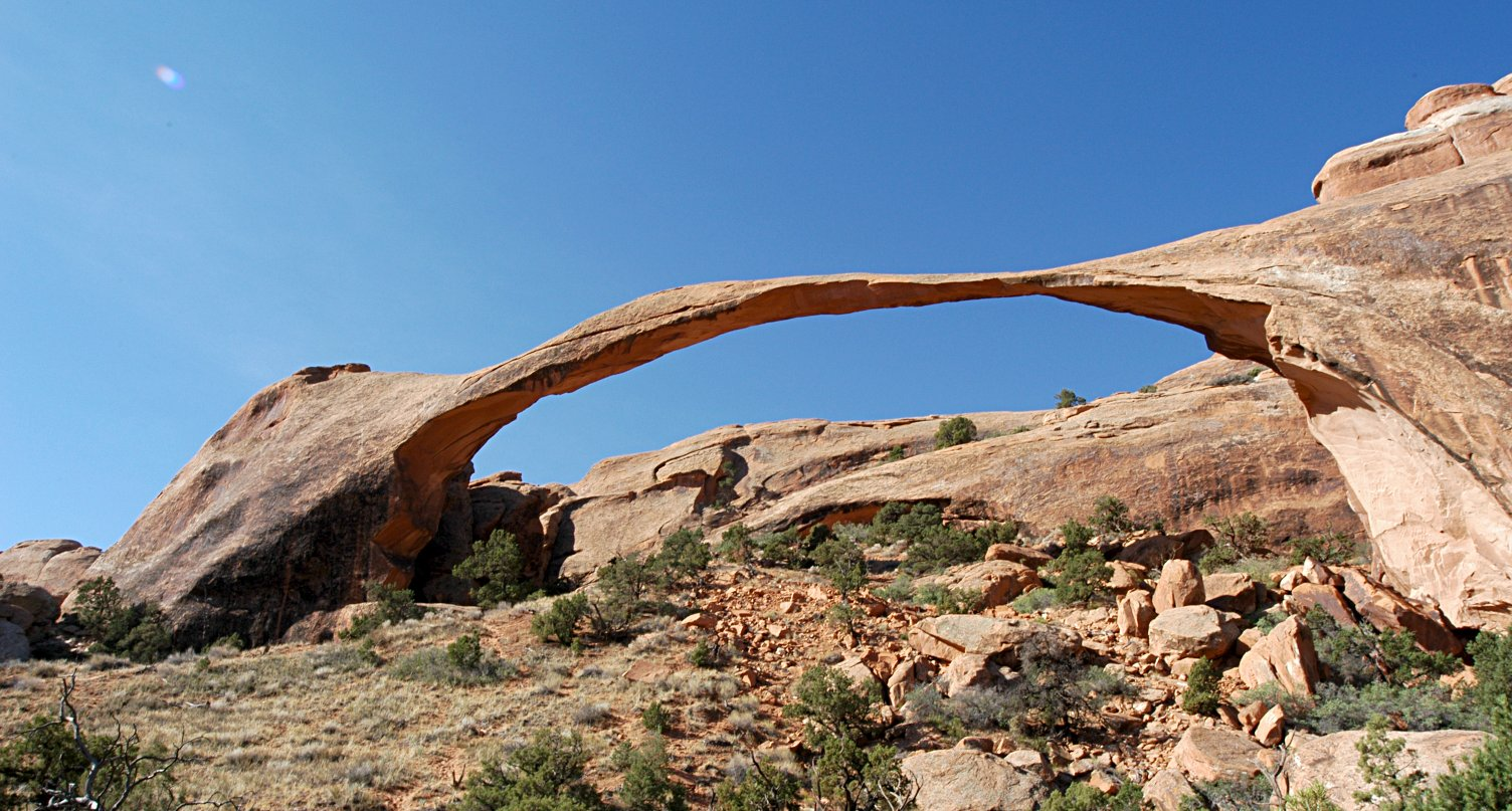 Landscape Arch, Arches National Park, Utah, United States.